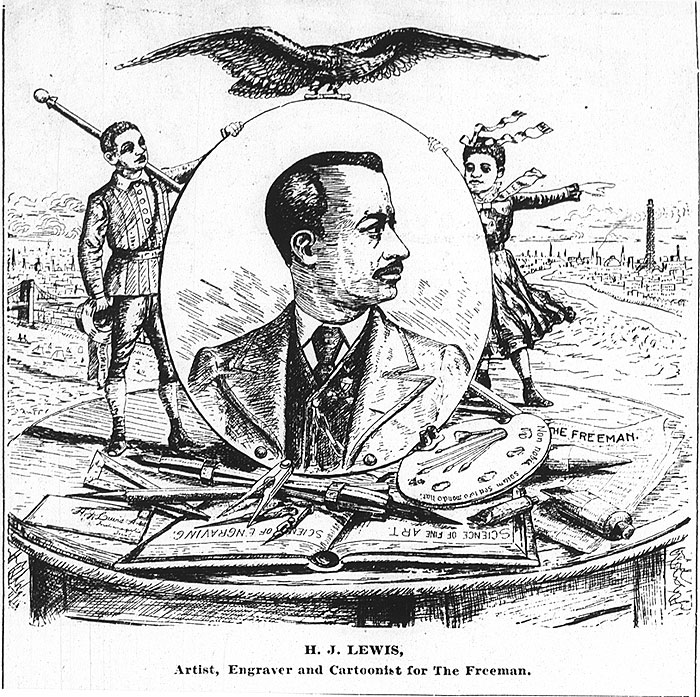 Self-portrait. Shows the right profile of his face, concealing his blinded and disfigured left eye. On the table in front of him are various tools and texts of his trade and a copy of the Indianapolis Freeman. His palette bears the Latin motto, "Not for ourselves alone but for the whole world." He is flanked by two of his children, his eldest son, John W. Lewis, and his eldest daughter, Lillian Estella Lewis. In the background are the recently completed Brooklyn Bridge and Eiffel Tower.